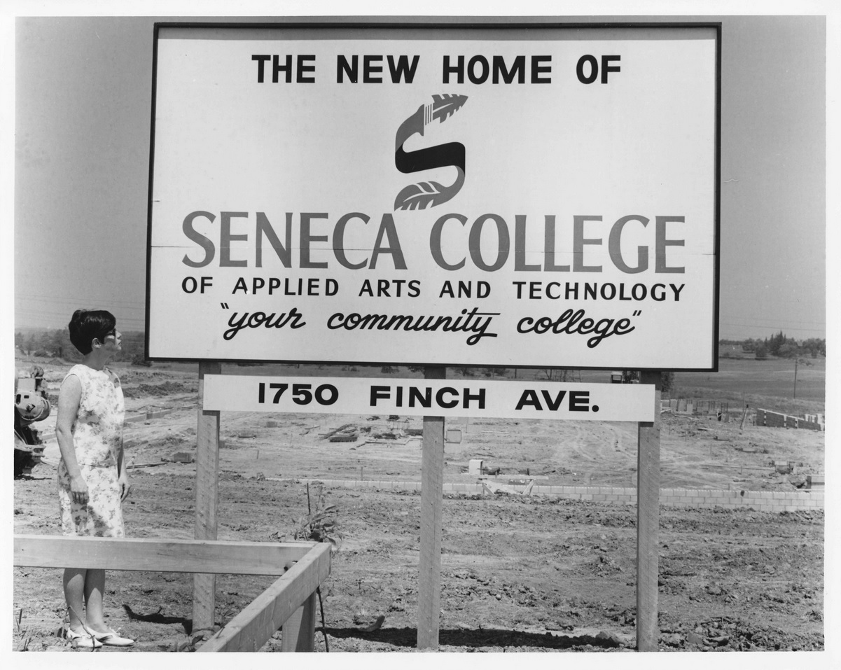 From Seneca Archives and Special Collections